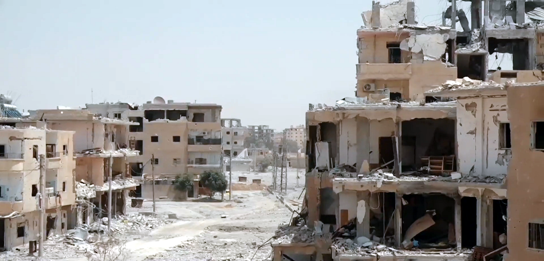 A destroyed part of Raqqa.